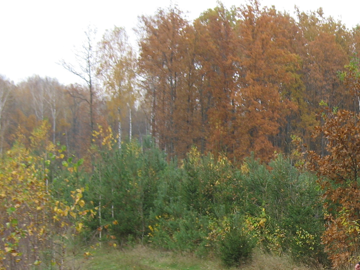 Korukivka, Ukraine. Lis